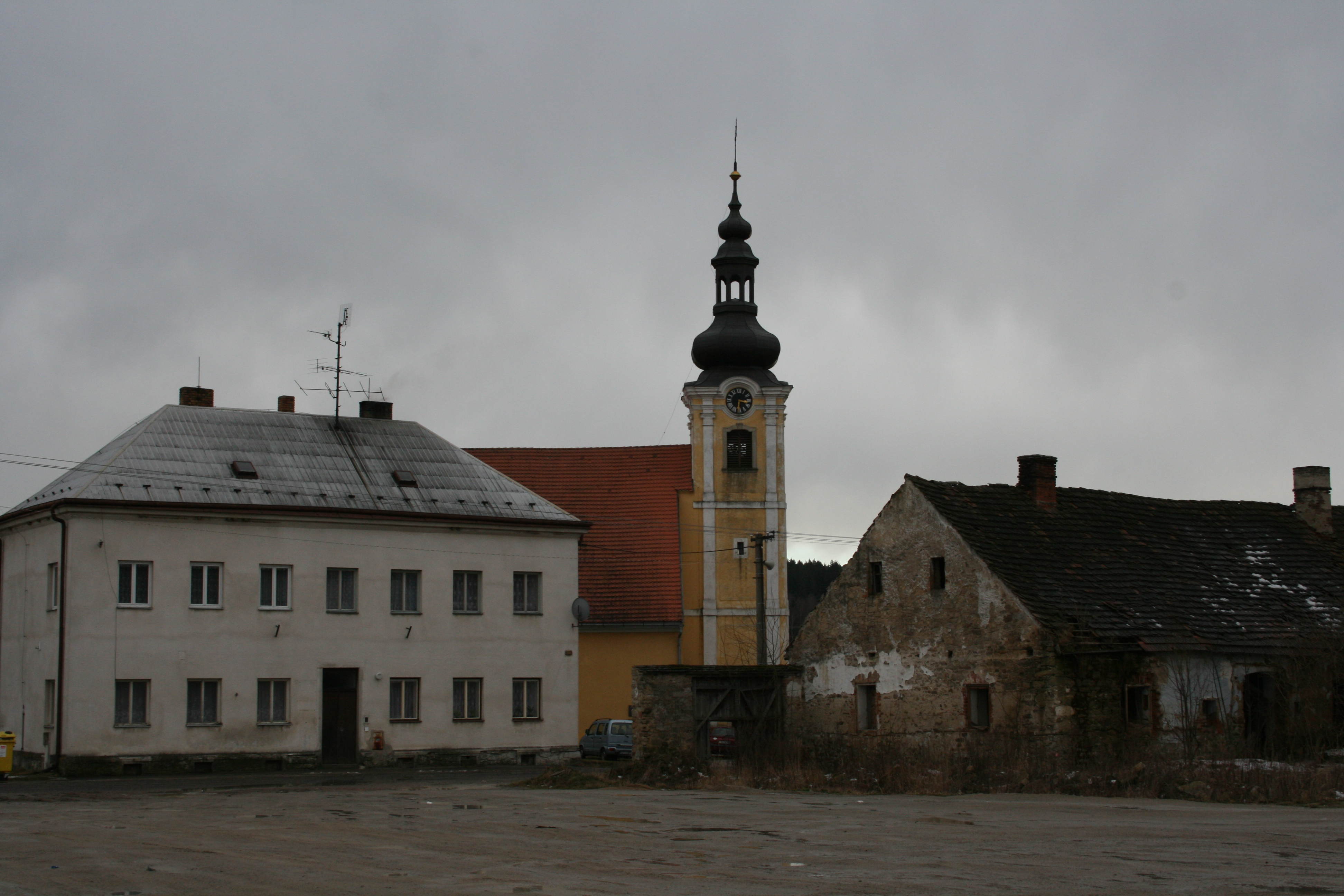 Village Číměř, Jinřichův Hradec District, Czech Republic.